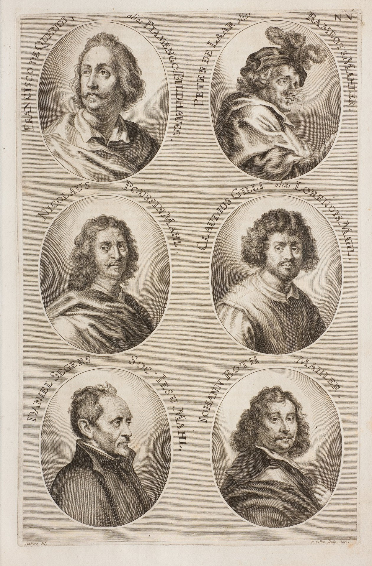 Engraving from the German Academy of the Noble Arts of Architecture, Sculpture and Painting, or Teutsche Academie, a comprehensive dictionary of art by Joachim von Sandrart, published in 1675 and later illustrated with engravings in 1683 Francois Duquesnoy, Pieter de Laar, Nicolas Poussin & Claude Lorrain, Daniel Seghers, Jan Both